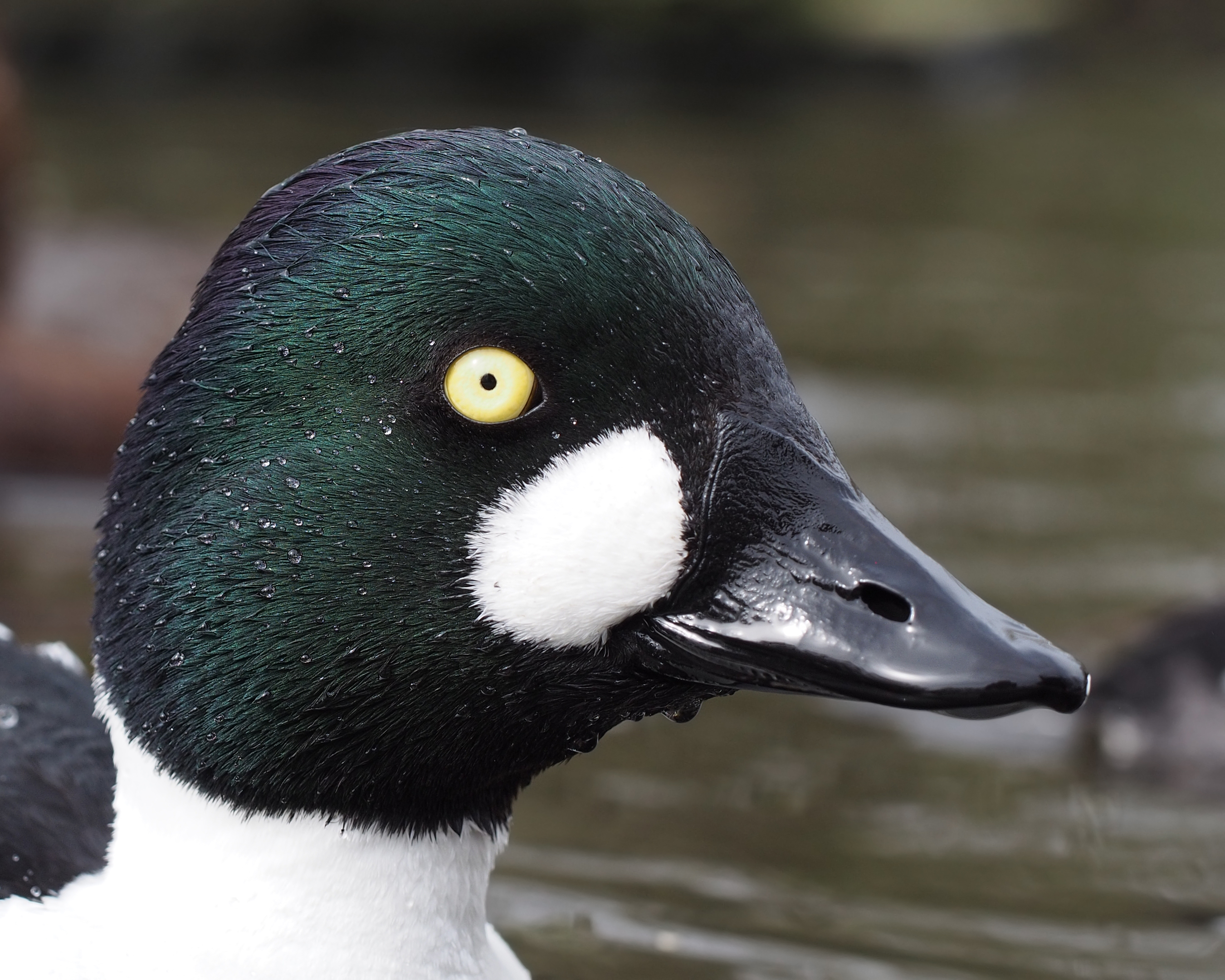 Male Common Goldeneye, Bucephala clangula